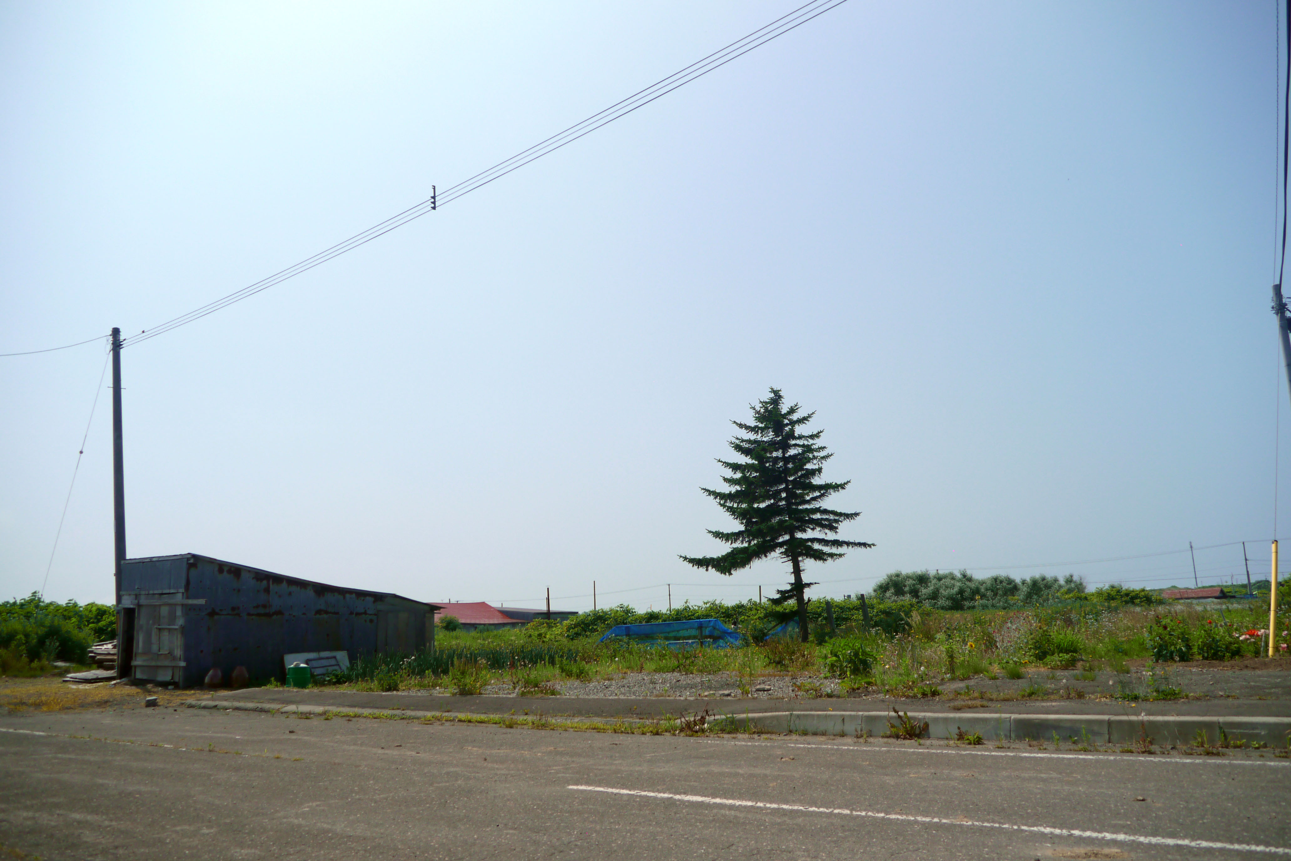 The remains of Chikubetsu Station of the Haboro Line in Hokkaido, Japan. Photo taken on July 28, 2011.